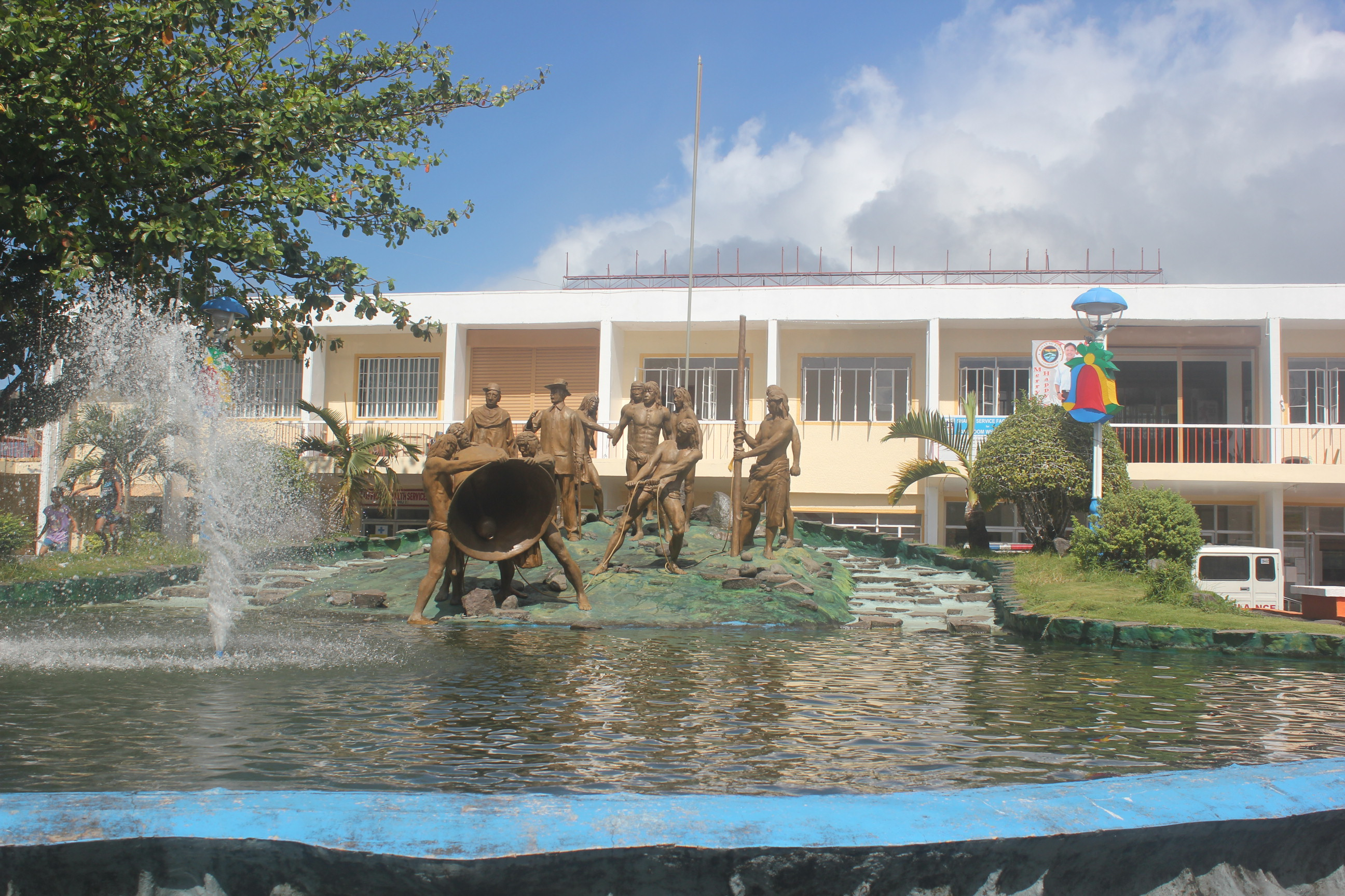 Buhi Sinarapan Statue depicting the history of Buhi..